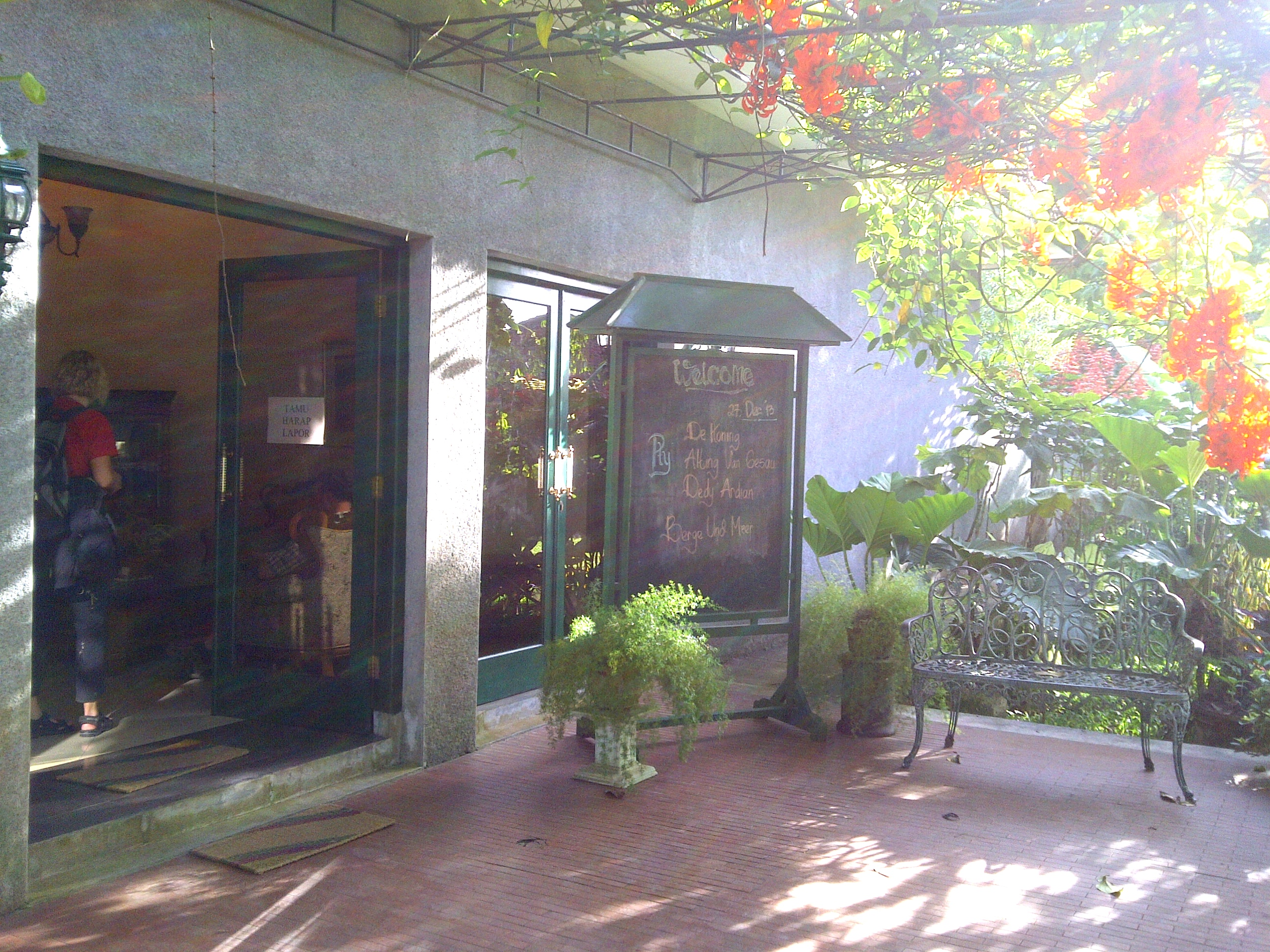 The lobby of Margo Utomo Hotel, Kalibaru, East Java, Indonesia